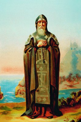 Iow of Anzer.